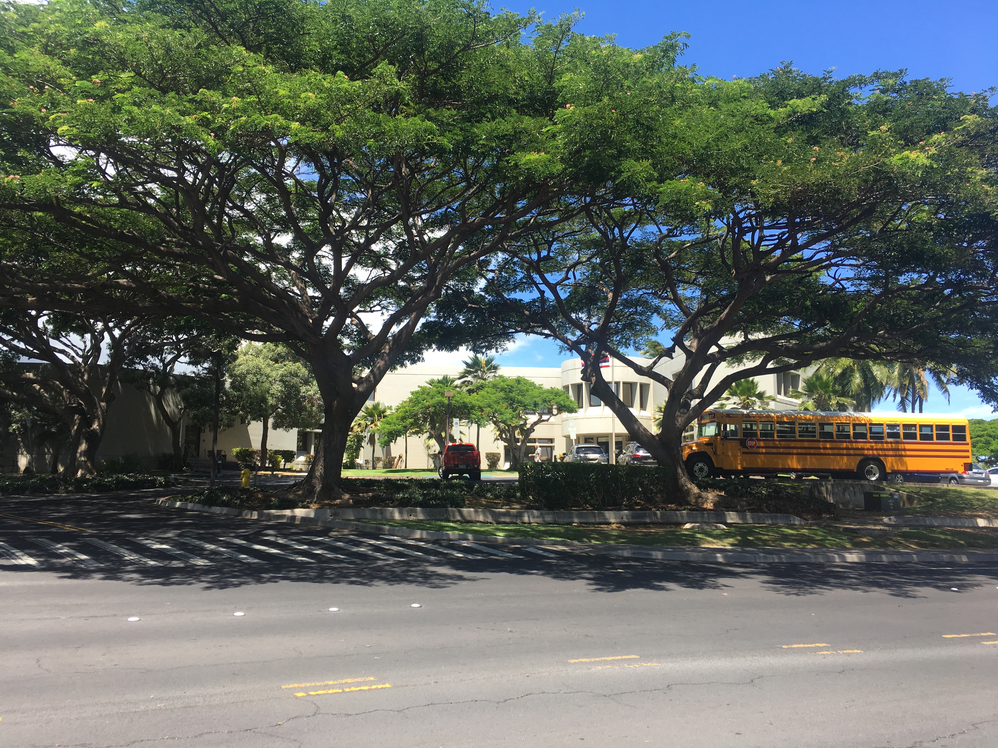 Maui County Police Department Headquarters